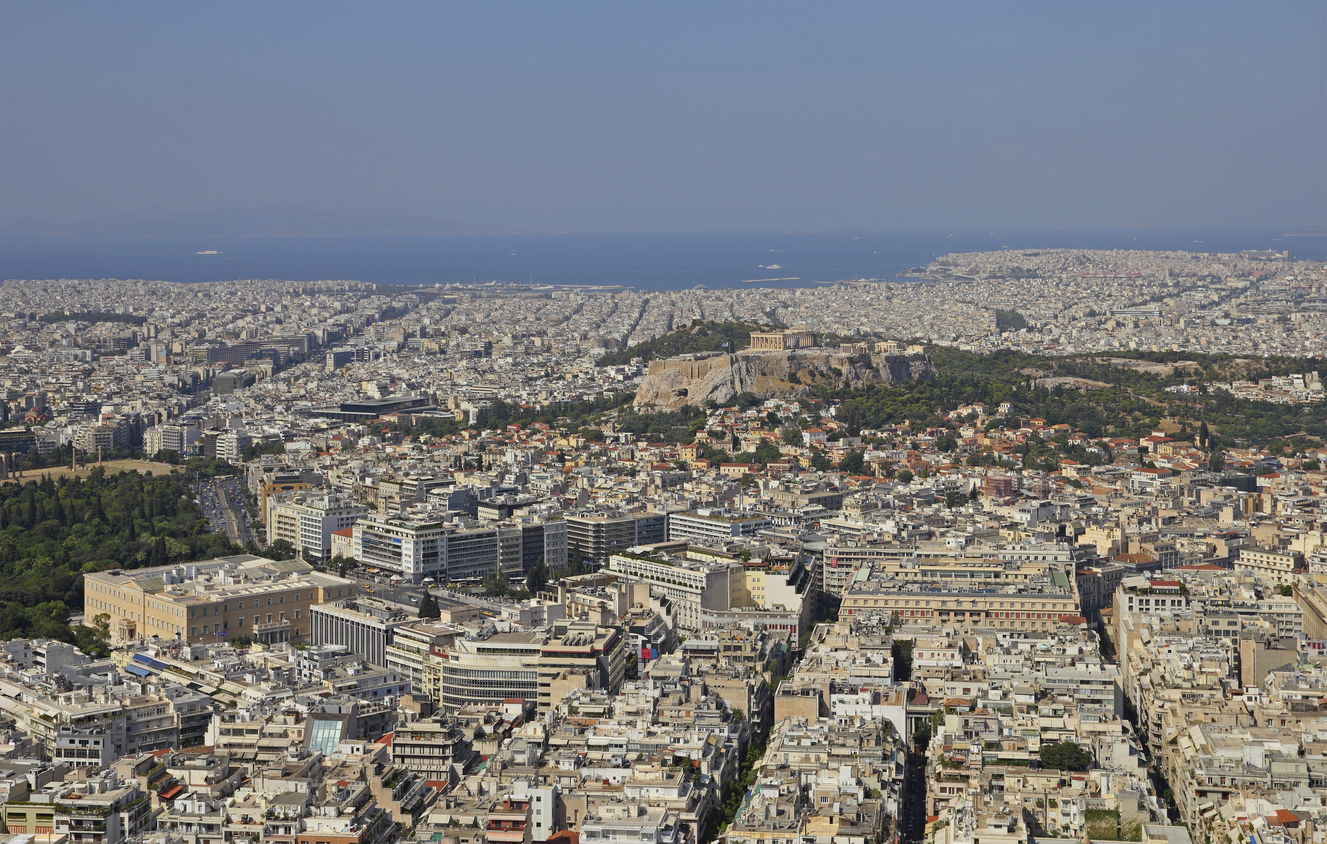 View from Lycabettus in Athens (Attica, Greece)